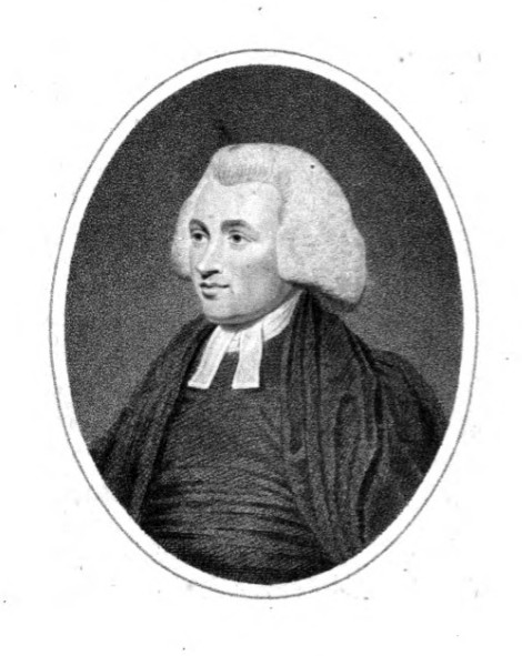 Portrait of John Eyre (1754–1803), English evangelical clergyman of the Church of England. From Evangelical Magazine, June 1794.